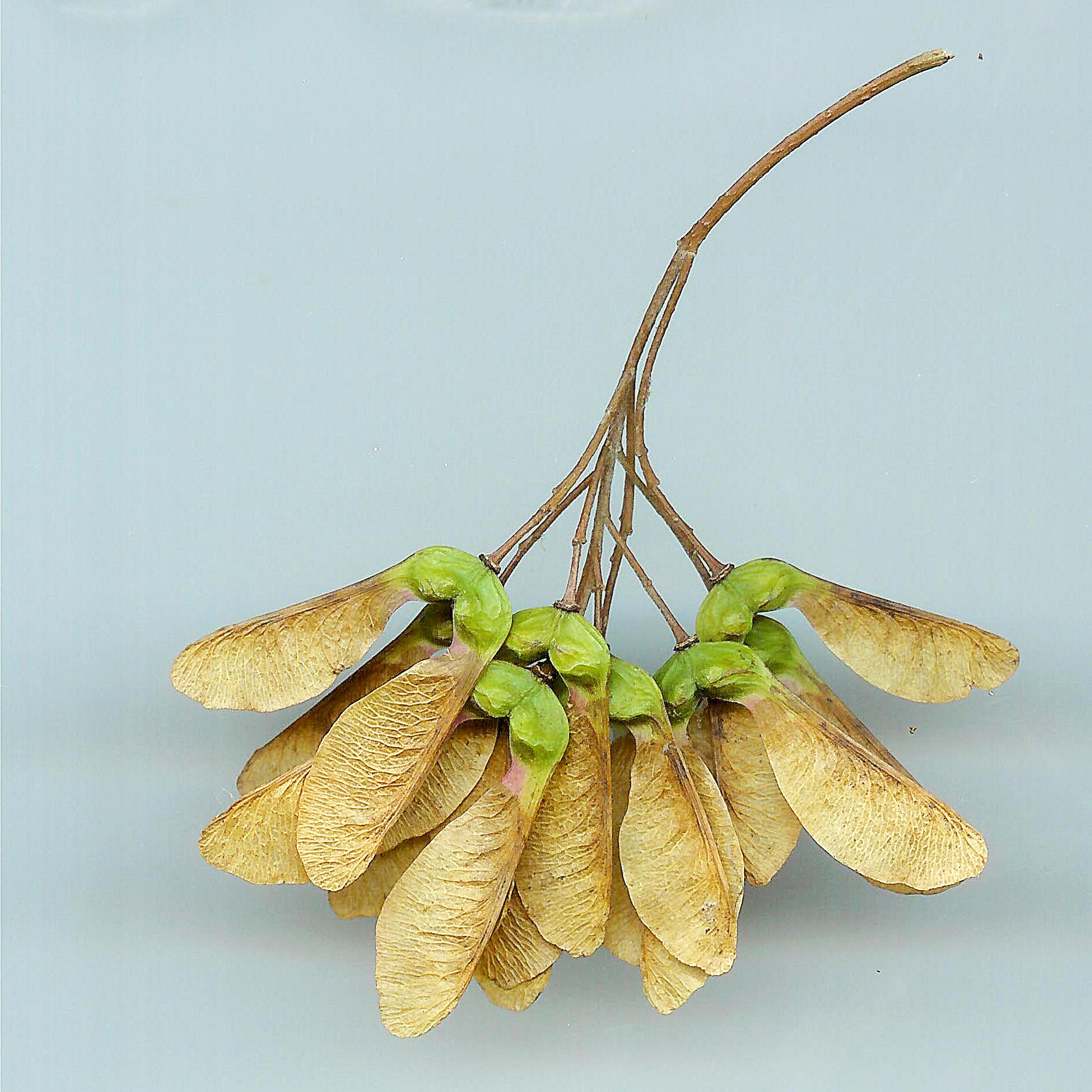 Acer buergerianum fruits